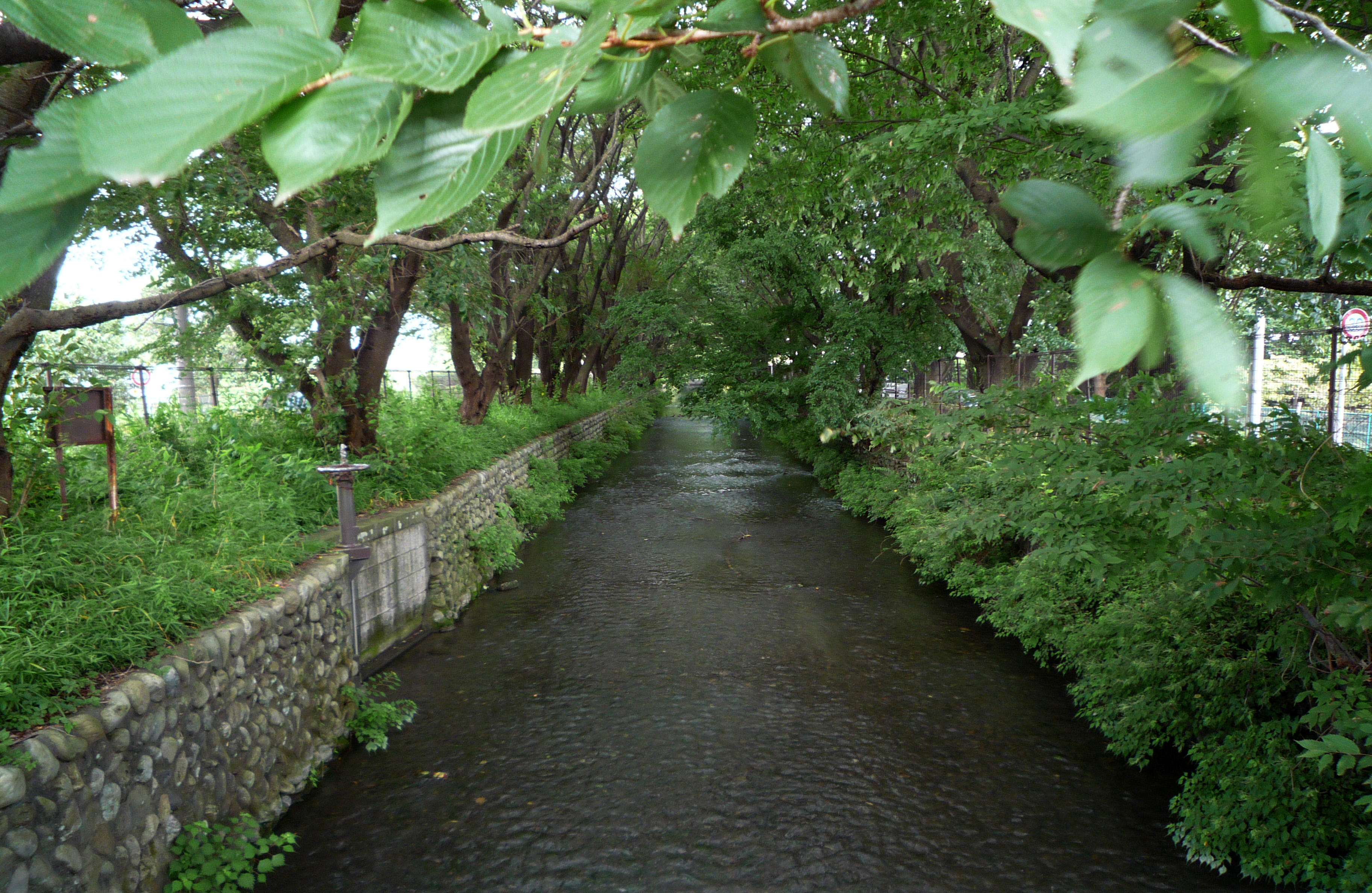 Tamagawa Josui Canal as seen from Mikage Bridge (Tachikawa, Tokyo)